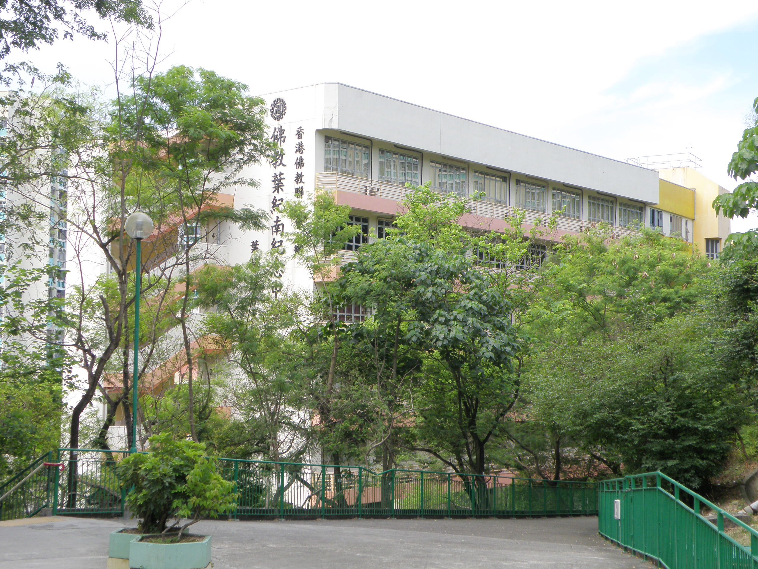 Buddhist Yip Kei Nam Memorial College in Tsing Yi, Hong Kong.